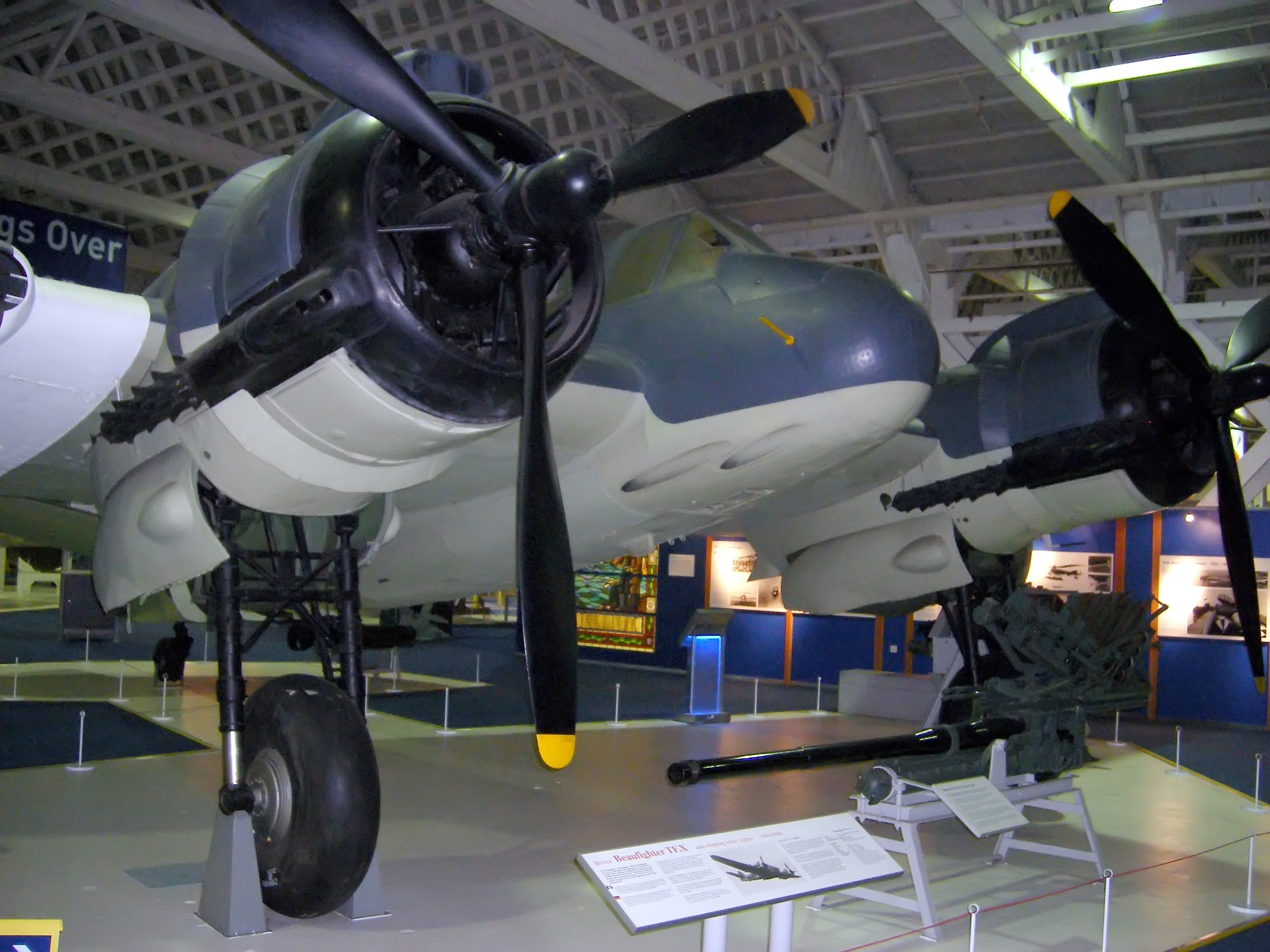 Bristol Beaufighter TF X RD253, at the Royal Air Force Museum London. On the floor below is a 6-pounder gun with Molins autoloader, as mounted on the De Havilland Mosquito "Tsetse".